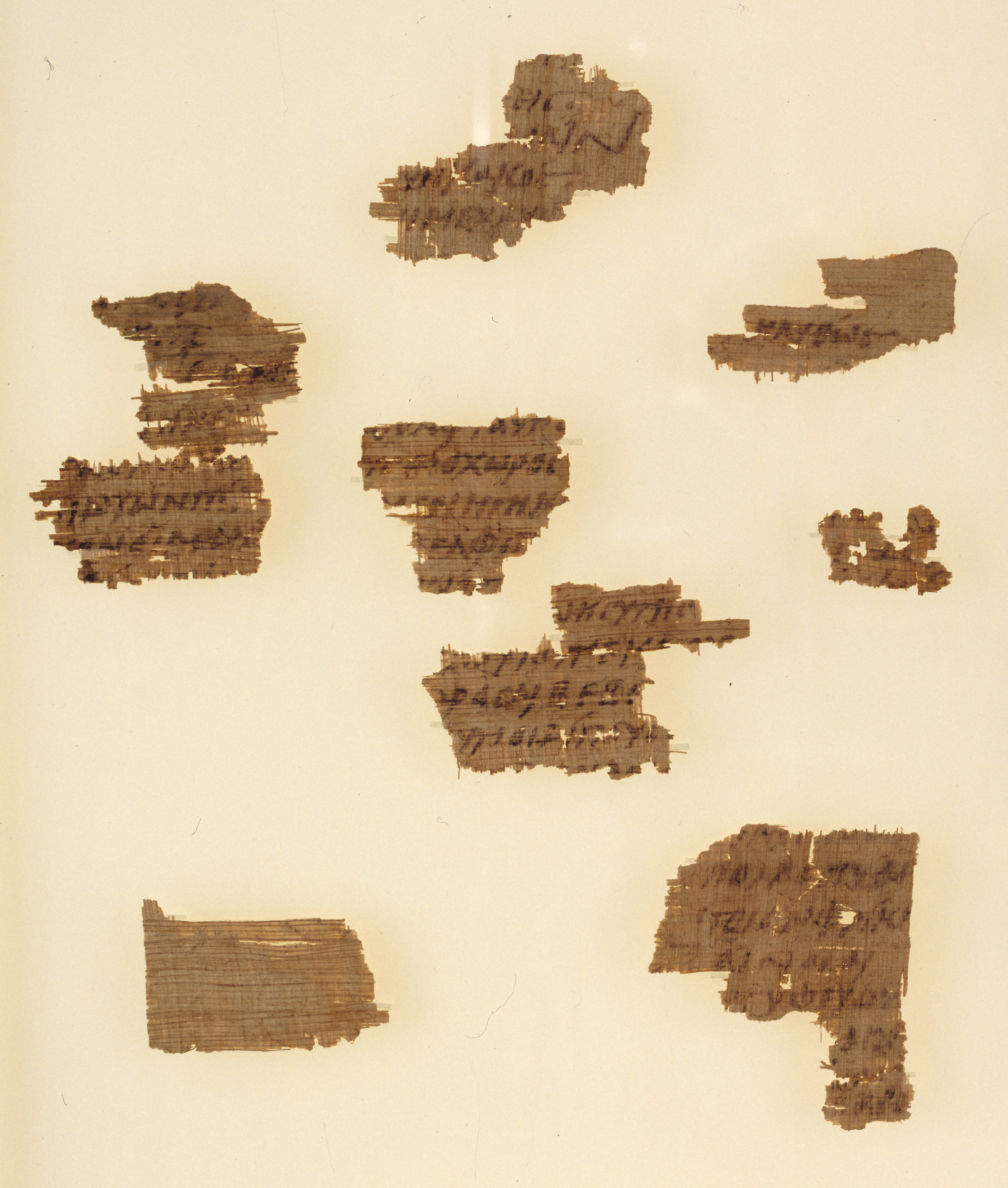 Papyrus Oxyrhynchus 1369 Bridwell Papyrus 4 Sophocles, Oedipus the King 688–710.731–751.775–784.819–827.1304–1310.1351–1358 recto